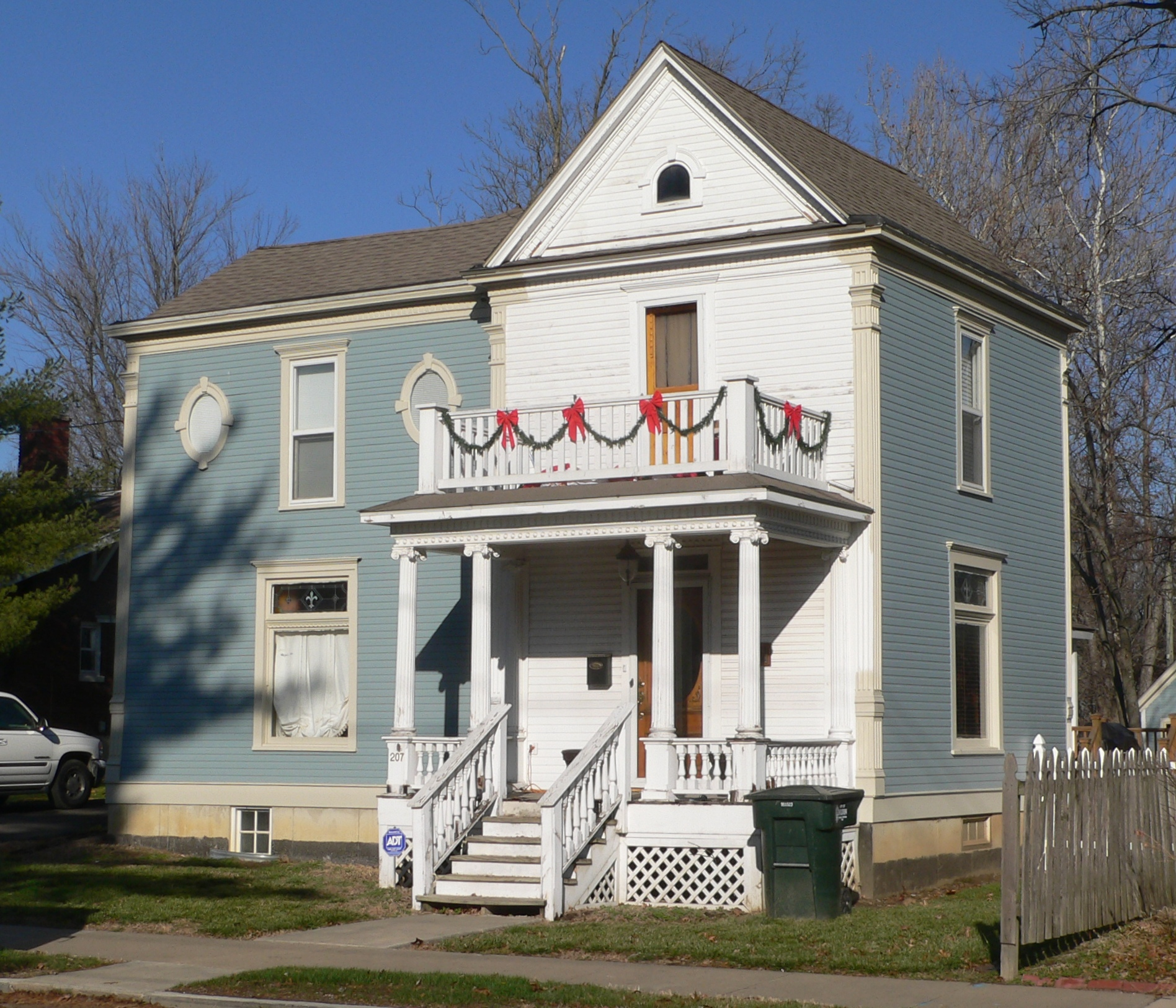 Brandon-Bell-Collier house, located at 207 E. 9th Street in Fulton, Missouri; seen from the southeast.